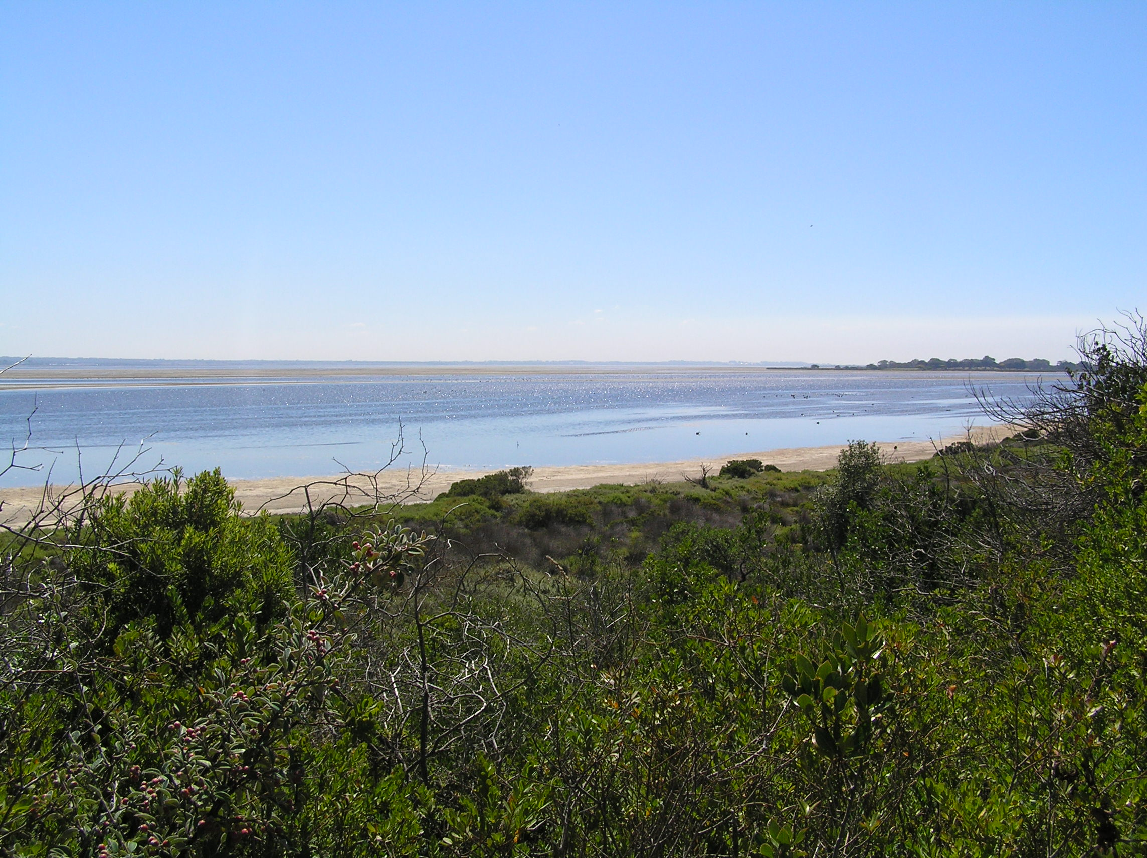 View of Swan Bay, looking northwards from Queenscliff, Victoria, Australia.